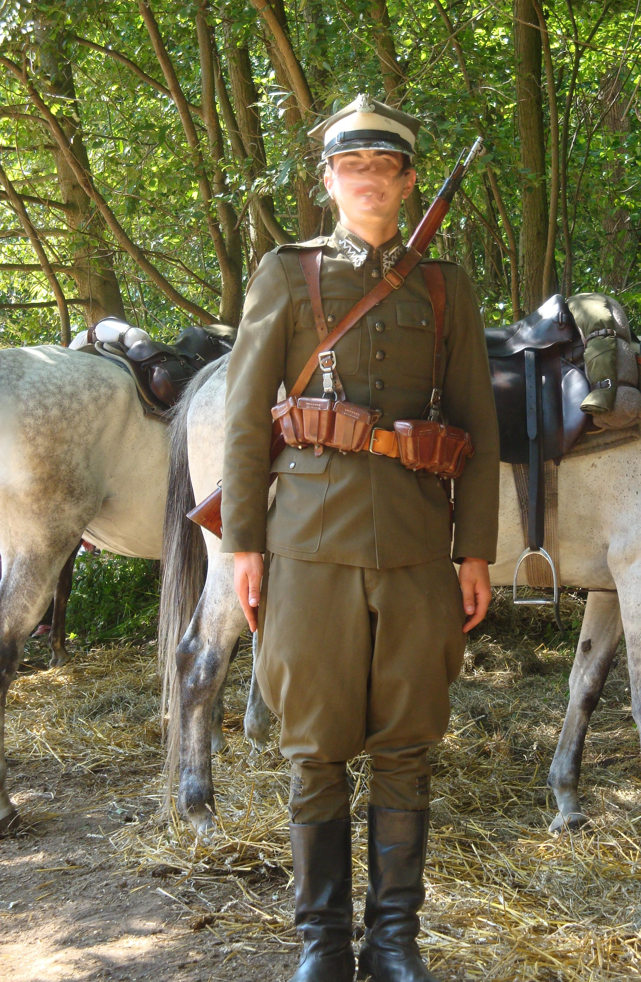 Polish uhlan of 8 Regiment of Mounted Rifles (Poland). Reenactor